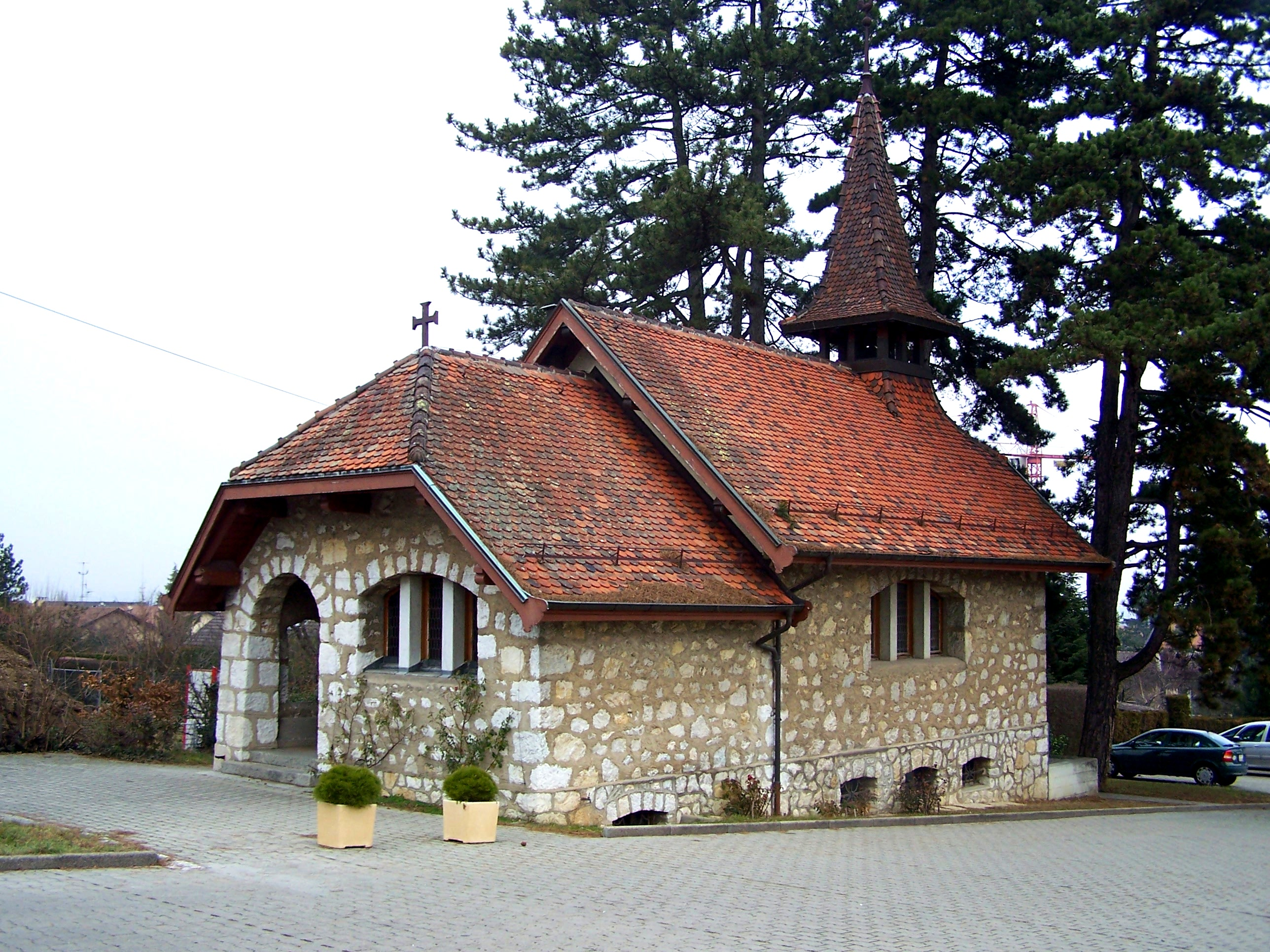 protestant church in Bernex, Canton of Geneva, Switzerland